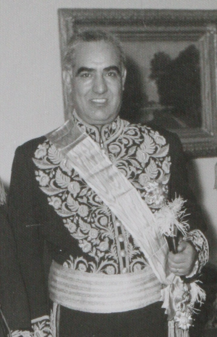 Manuchehr Eghbal